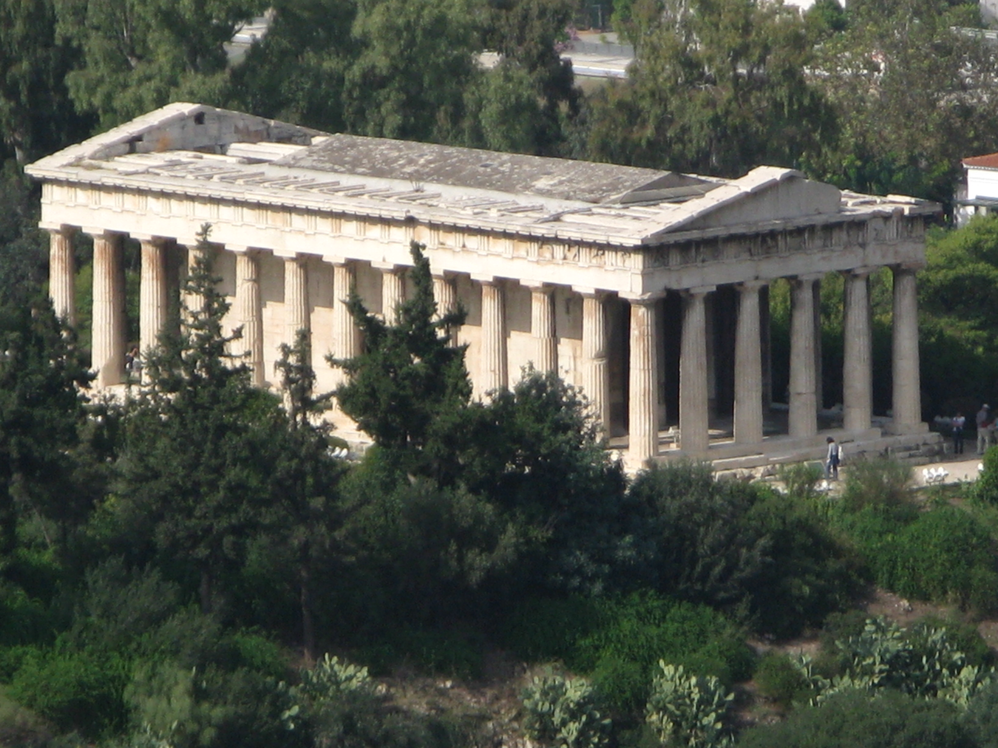 Temple of Hephaestus in Athens.